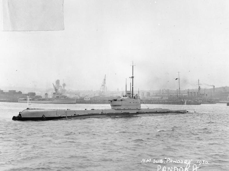 HMSM Pandora Underway.